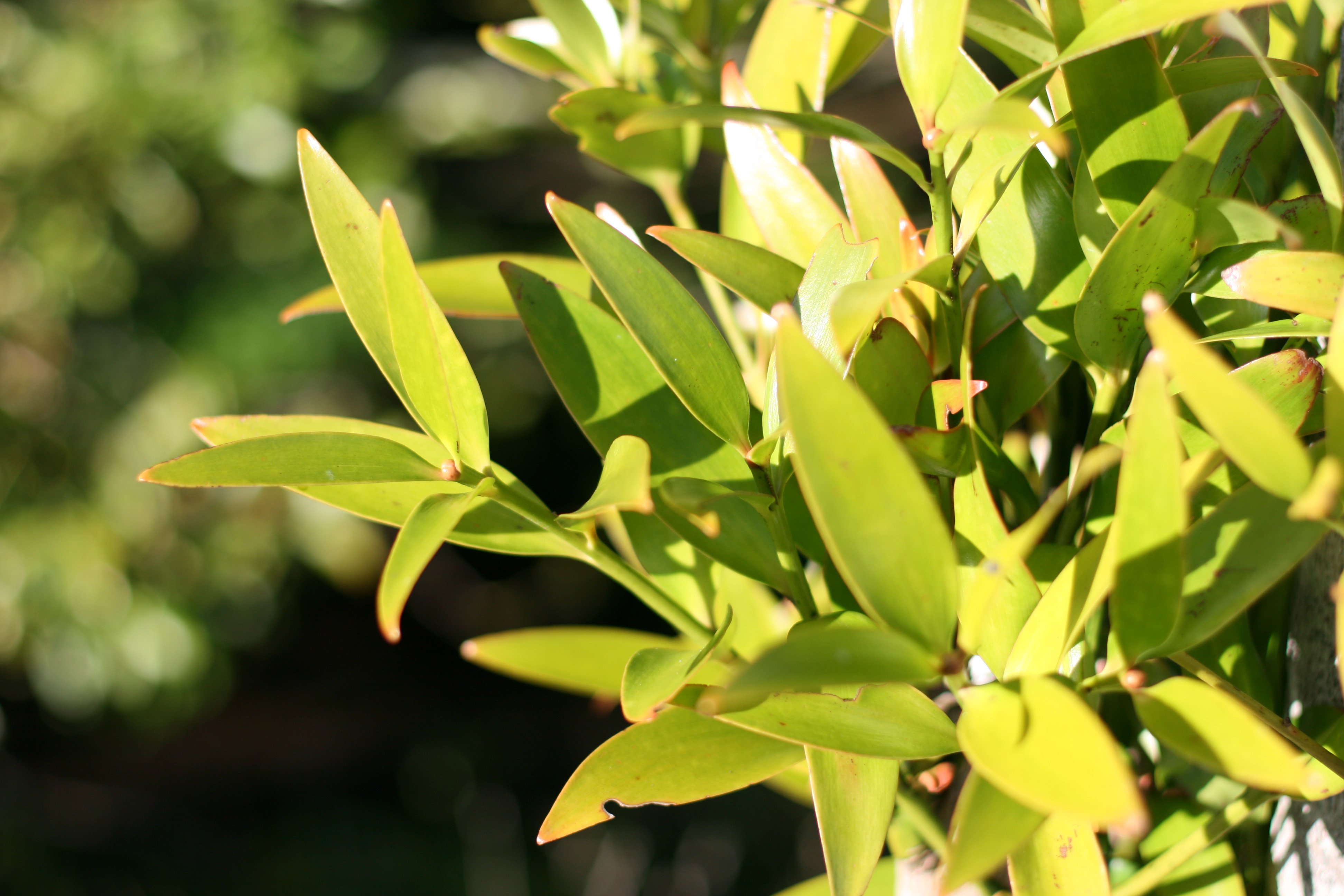 Agathis macrophylla, foliage on a young tree at Auckland, New Zealand